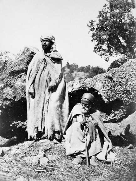 Kabyle peasants wearing a burnous